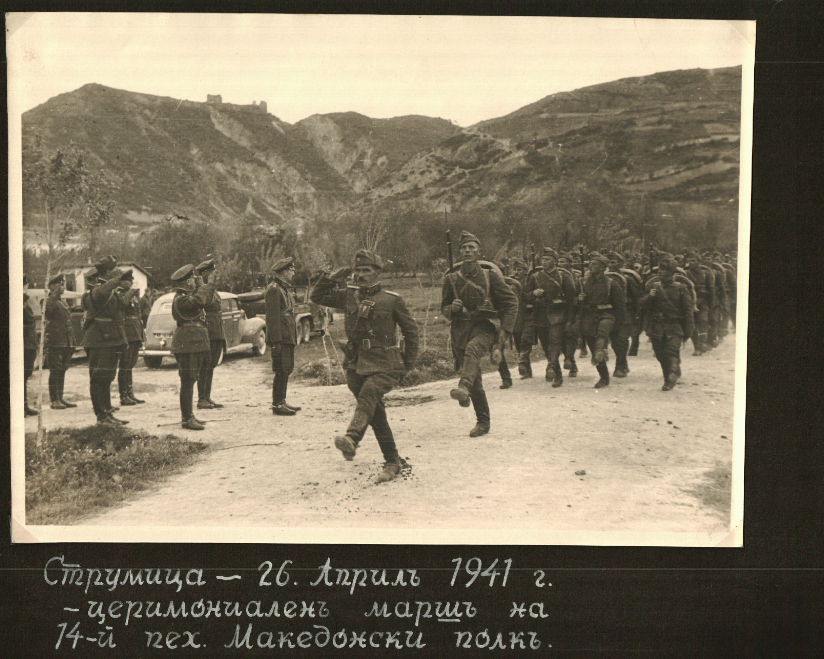 14 Infantry Macedonian Regiment